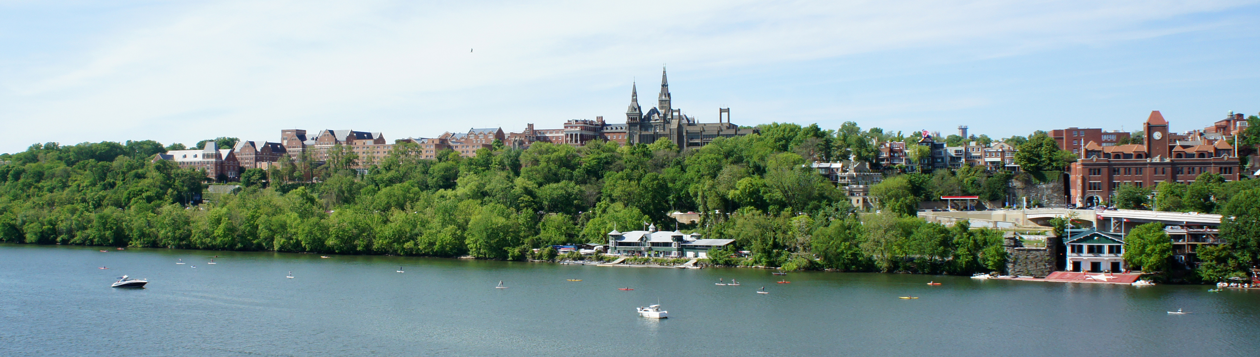 Panoramic view of Georgetown University campus from across the Potomac river (Key Bridge), Washington, D.C.